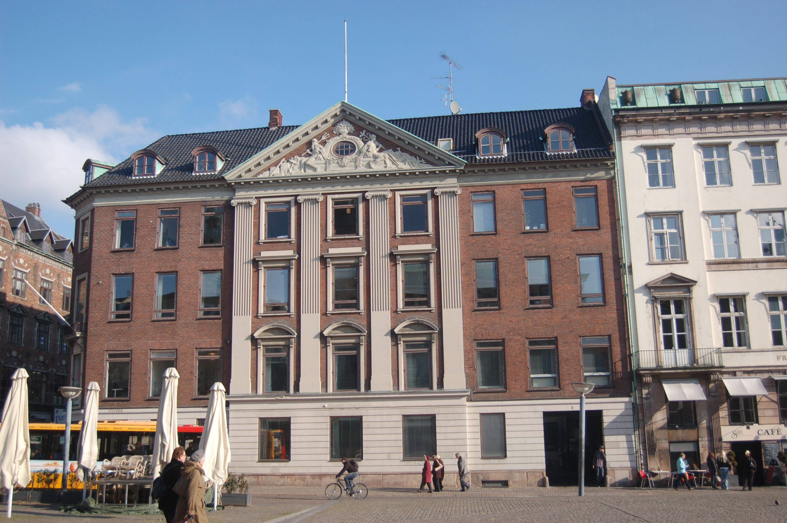 3 Nytorv 3 in Copenhagen, Denmark. The three bays to the right (corner of Nygade) is part of a building from 1801-02 which also has a corner bay and 13 bays along Nygade. The six bays to the right (including the central section with the pilasters and triangular pediment) is from after 1900. Source